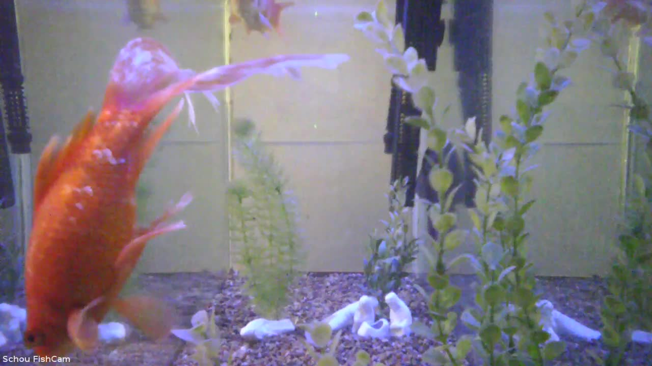 Live Schou FishCam image from